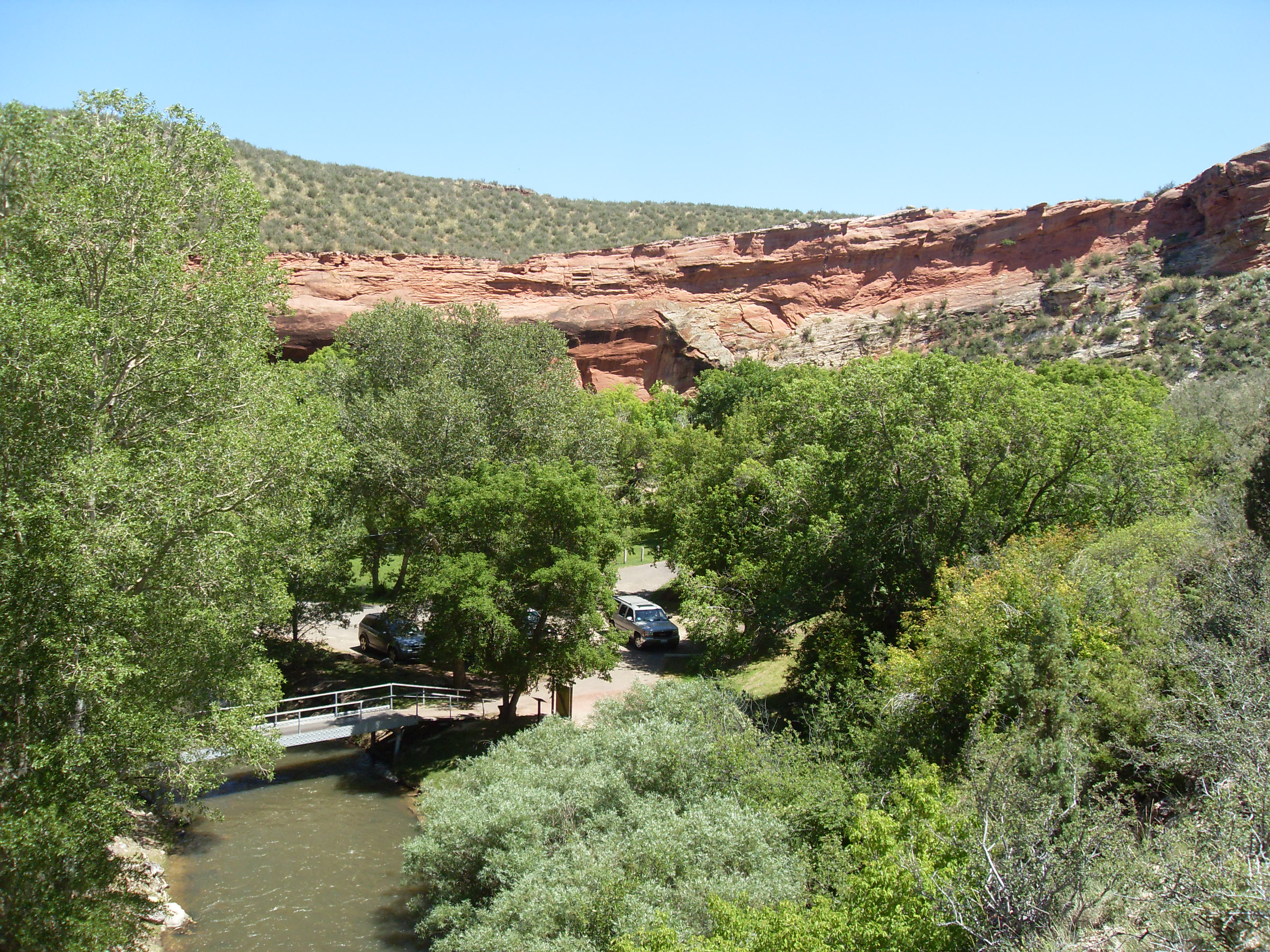 View from the bridge in the park